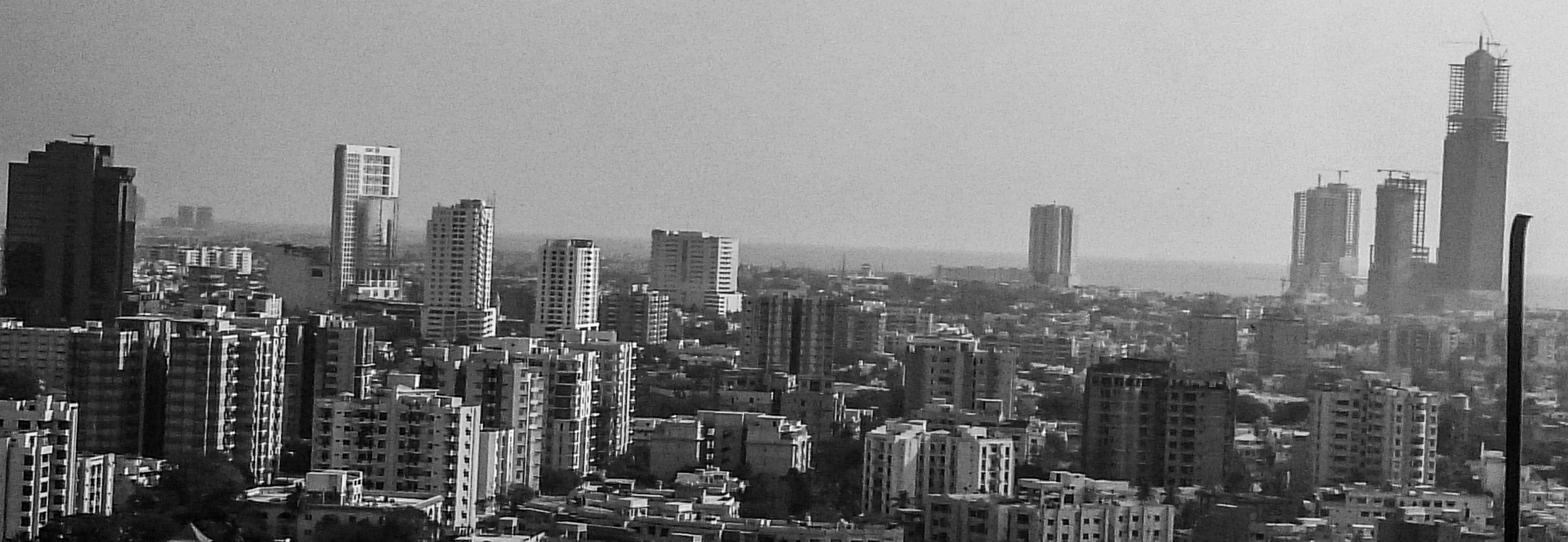 View of Karachi's skyline from Underconstruction Skyscraper Chapal Skymark. The tallest tower visible in the frame is Bahria Icon tower.